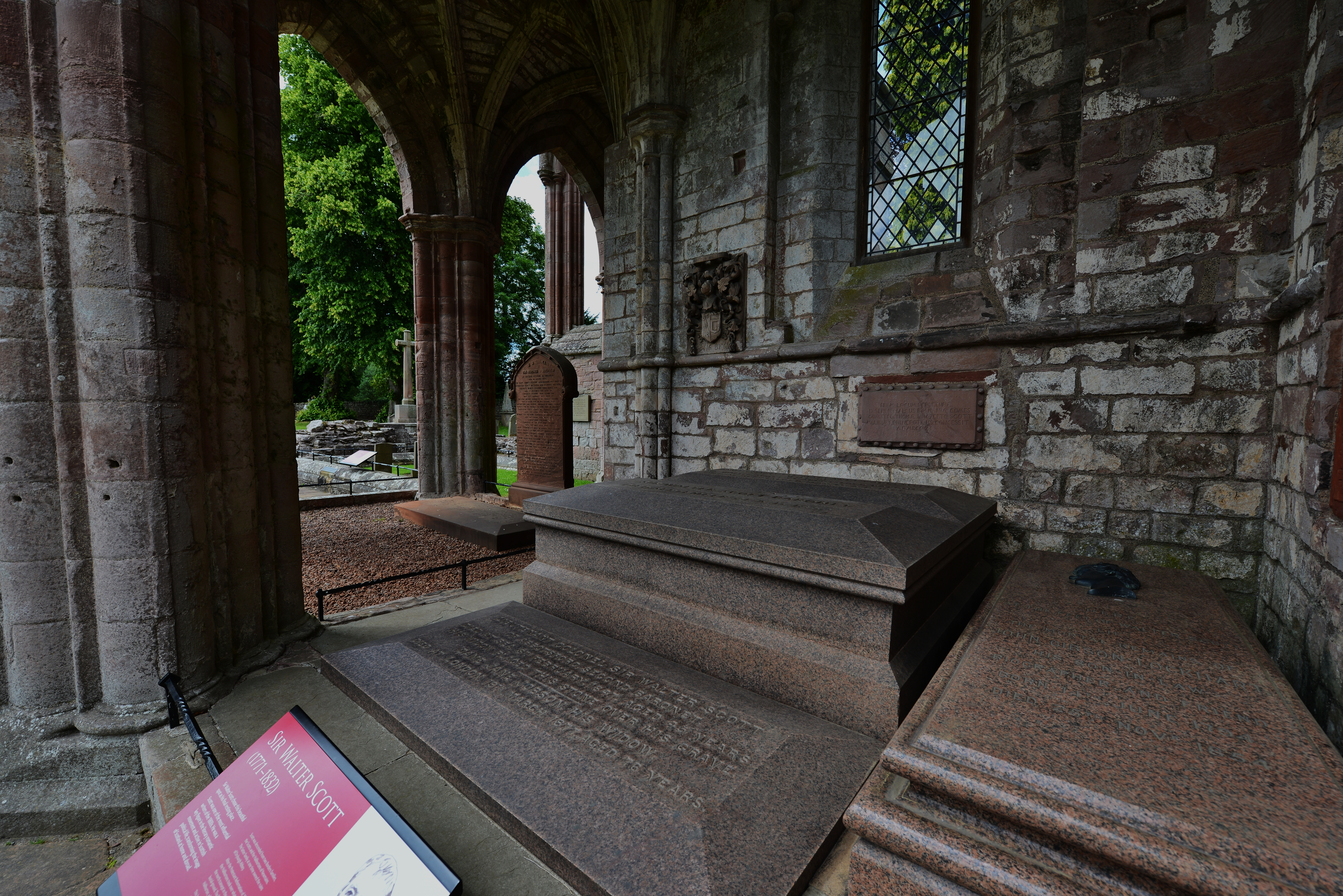 Photo by Michael Garlick